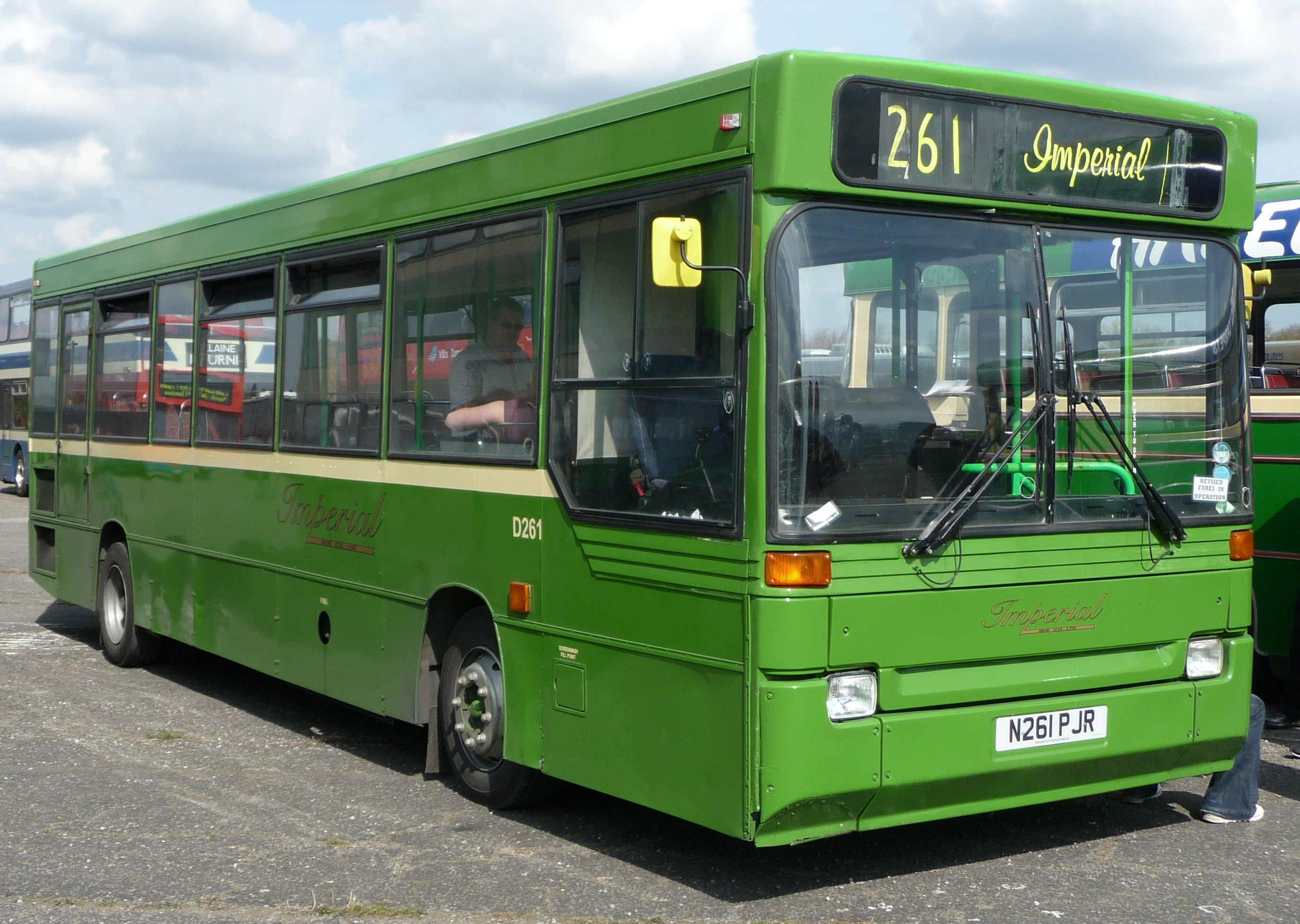 Imperial Buses' D261 (N261 PJR), a Dennis Dart/Plaxton Pointer, at the 2009 Cobham bus rally at Wisley Airfield.